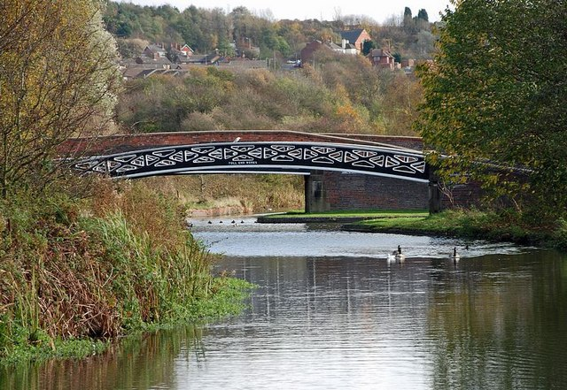 Bumble Hole Conservation Area The Boshboil Arm Bridge, and behind it is the Windmill End Bridge.